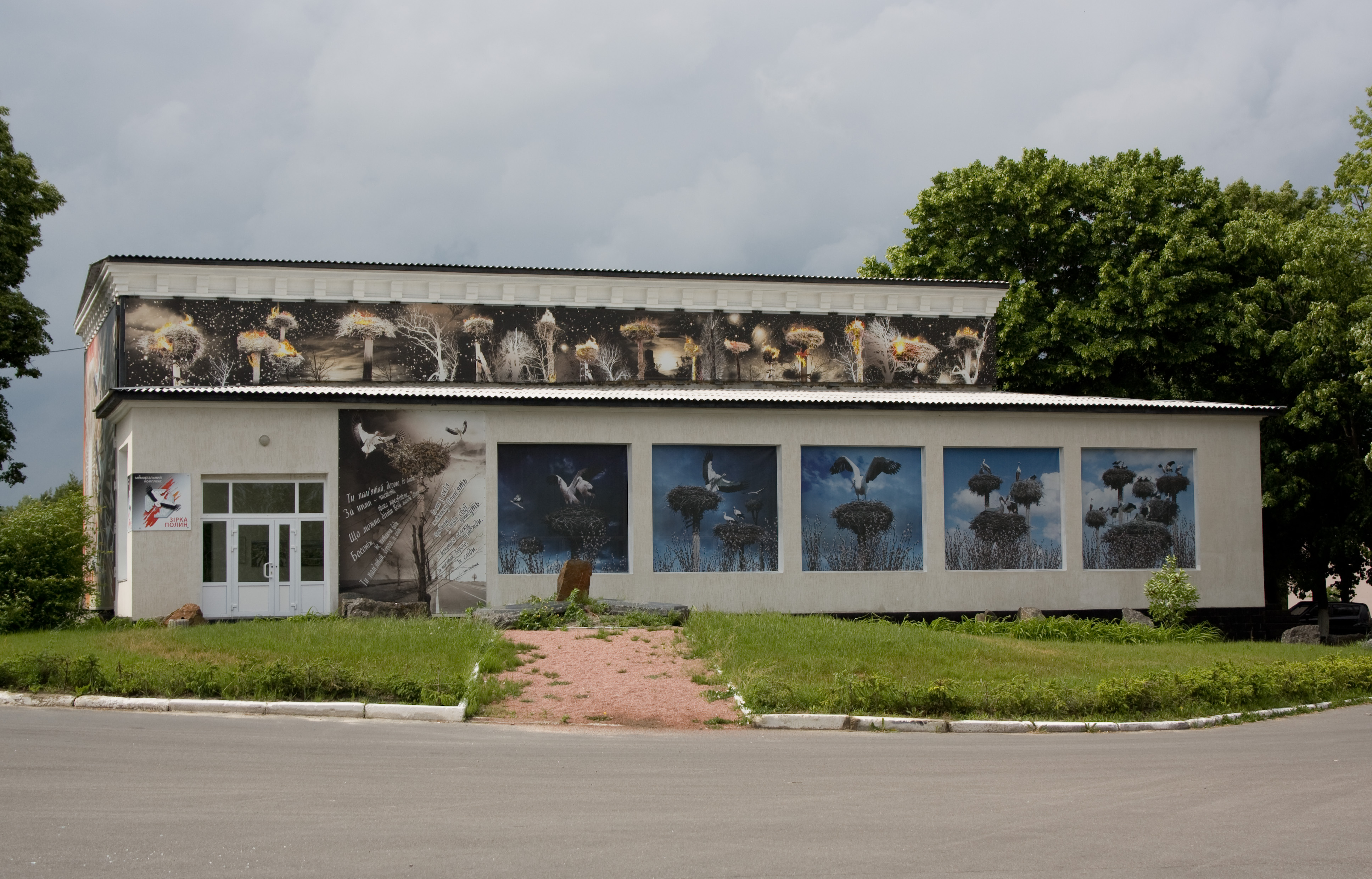 Wormwood Star memorial complex, Chernobyl city, Ukraine. The mural features a poem by Borys Oliynyk.